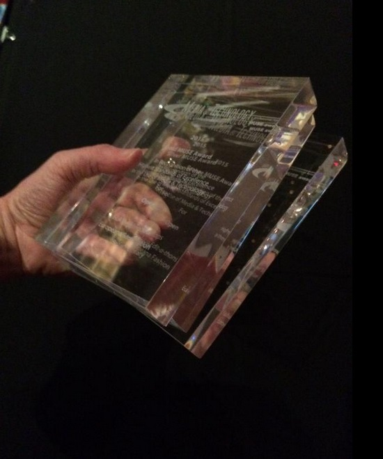 The awards for the 'Open' category at the MUSE Awards 2015 of the American Alliance of Museums